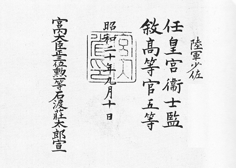 Appointment of Imperial Police Guard Officer